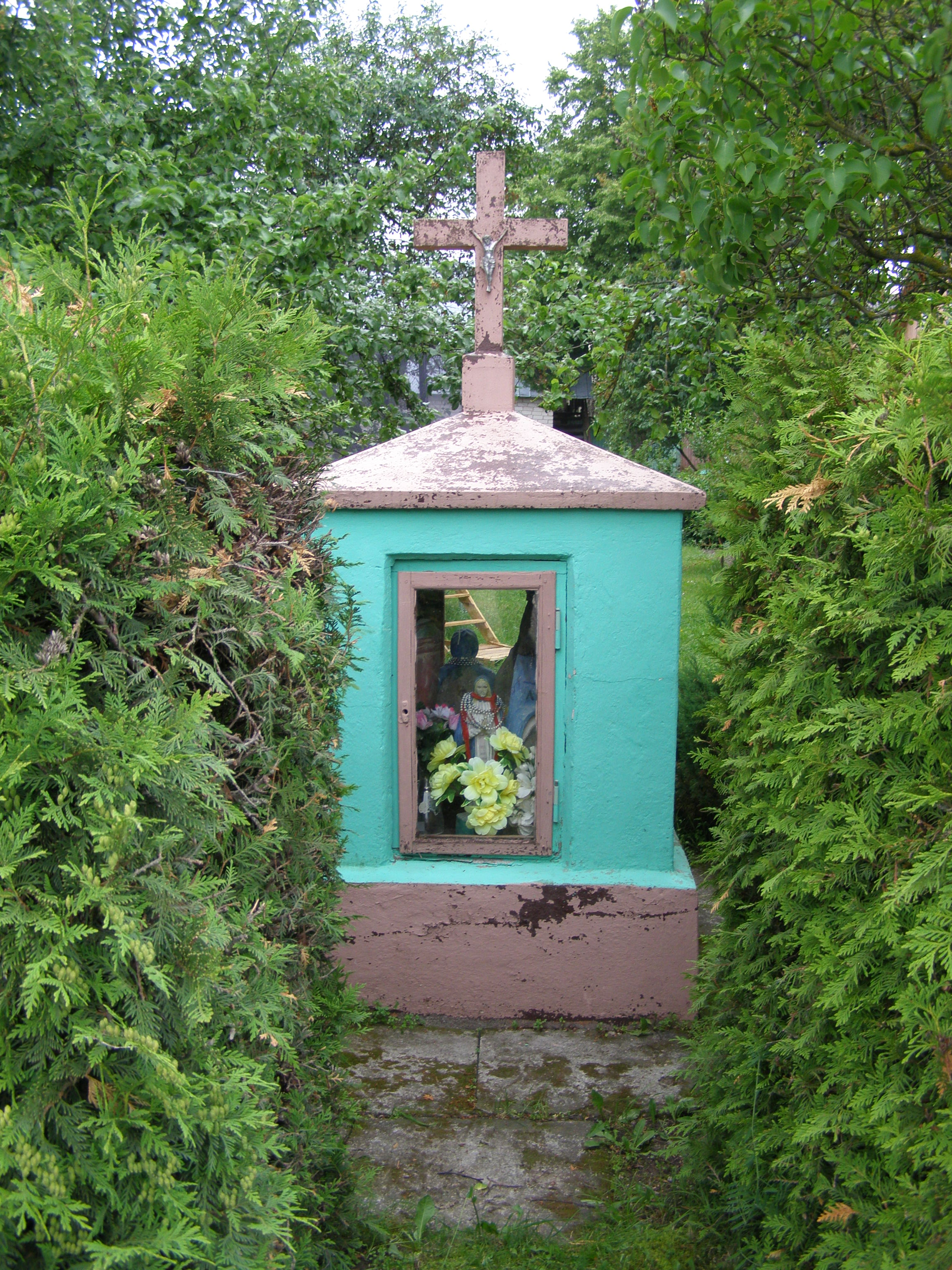 Budriai chapel, Skuodas district, Lithuania